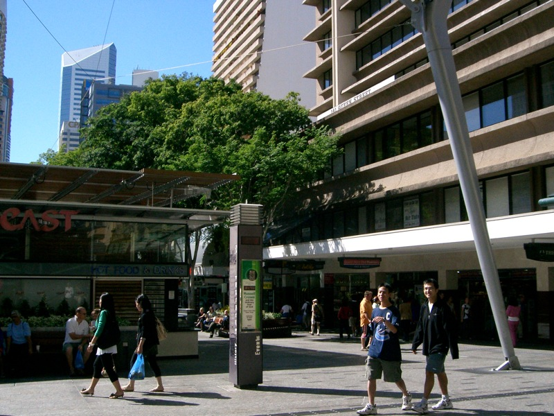 View of the Queen Street Mall in Brisbane Australia. Taken by Osamu Okada on May 14th, 2006.